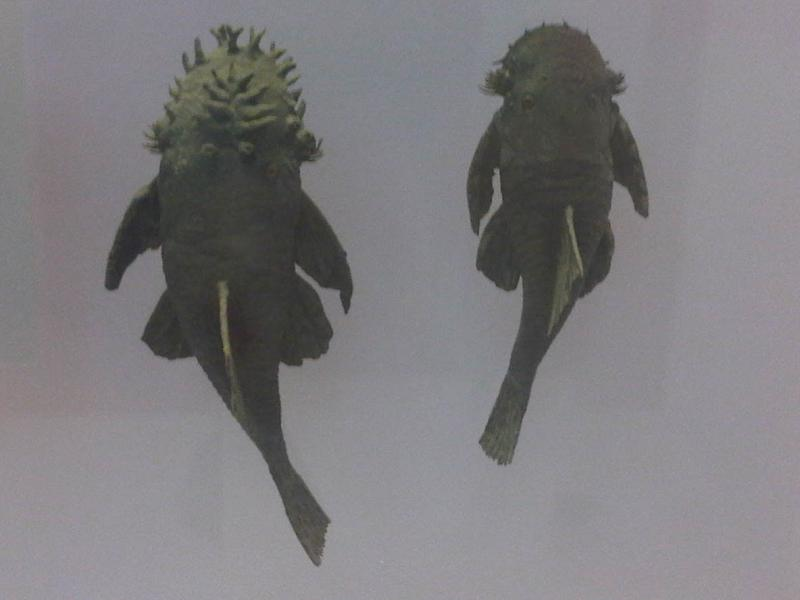 Two Ancistrus stigmaticus models at the Natural History Museum in London, England.